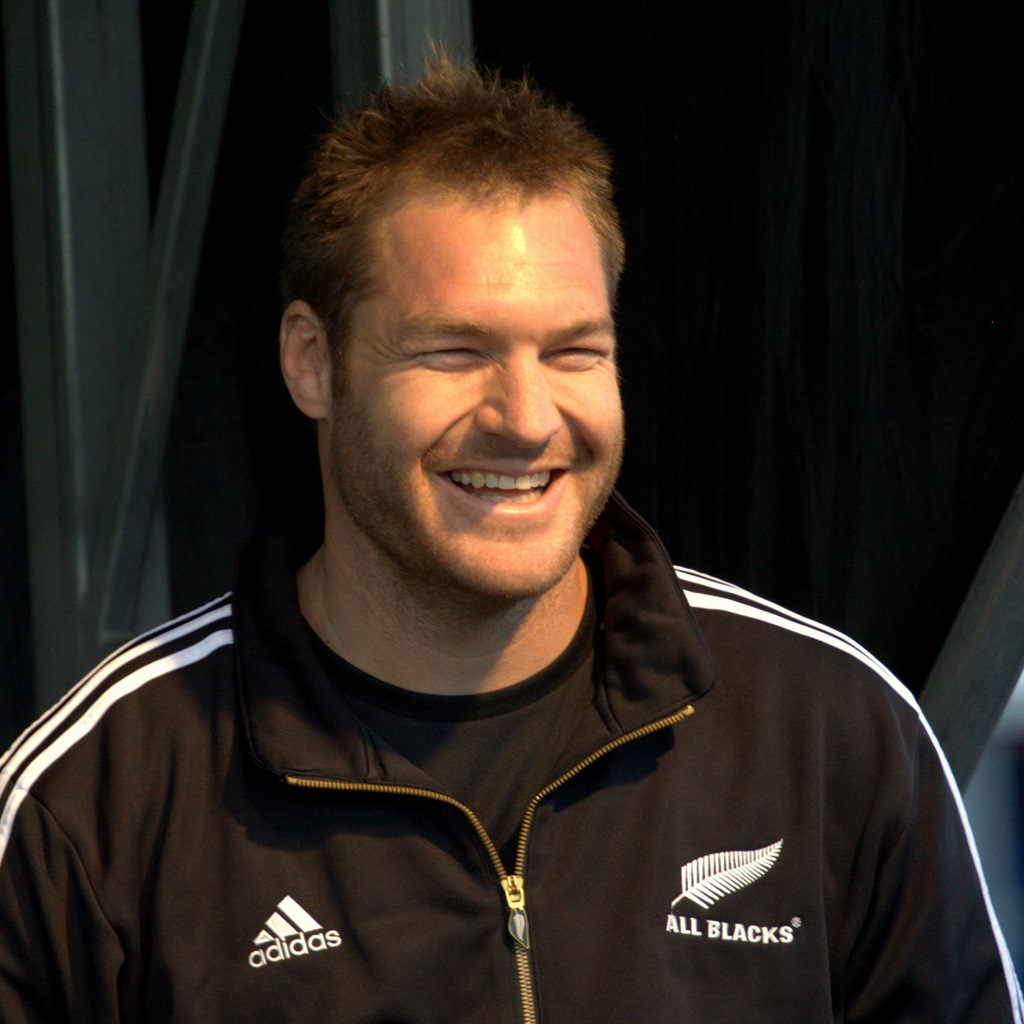 New Zealand rugby union player Ali Williams and the rest of the All Blacks visit Christchurch during the Rugby World Cup.